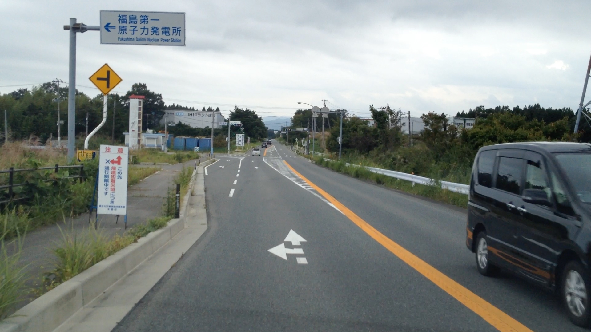 The entrance crossing of Fukushima Daiichi Nuclear Power Plant from Japan national route no.6 on Sep. 15, 2014.